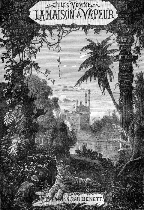 An illustration from Jules Verne's novel "The Steam House" drawn by Léon Benett.